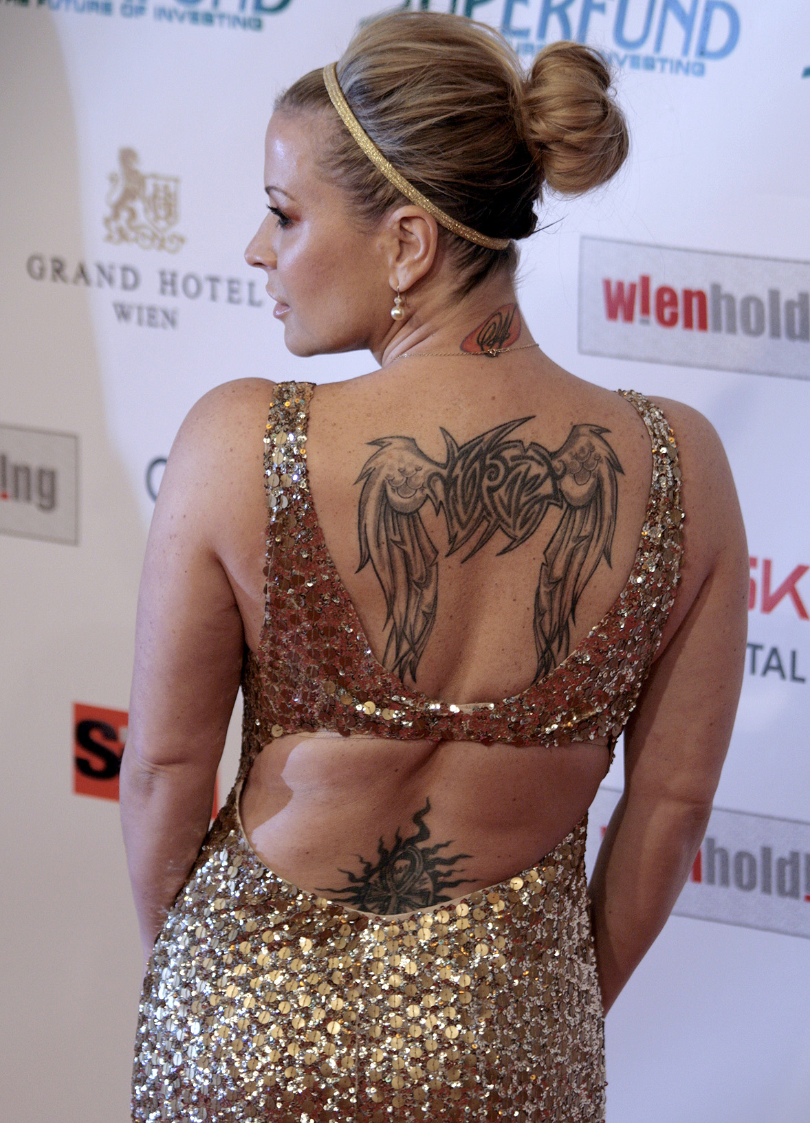 Singer Anastacia at the Women's World Award 2009 (Wiener Stadthalle, Vienna, Austria) where she recieved the 'World Artist Award'.